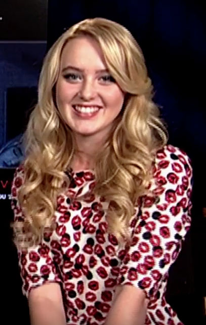 Greg gets his feathers ruffled by the thought of Oompa Loompas that may or may not be found on millions of found footage tapes and film reels.